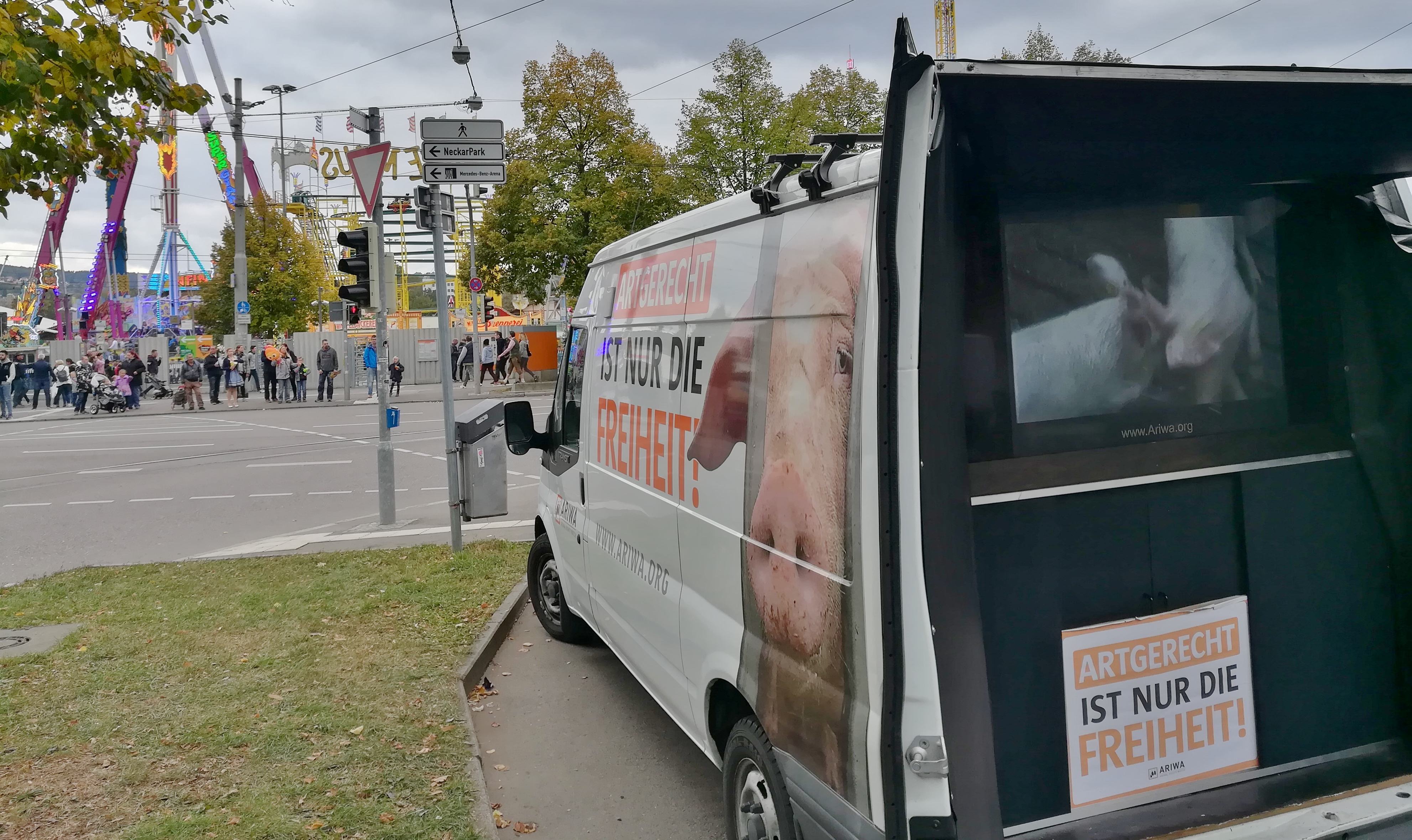 A truck with a video screen, used by the German animal rights organization Animal Rights Watch e. V. to show videos from investigations in factory farms and slaughterhouses.